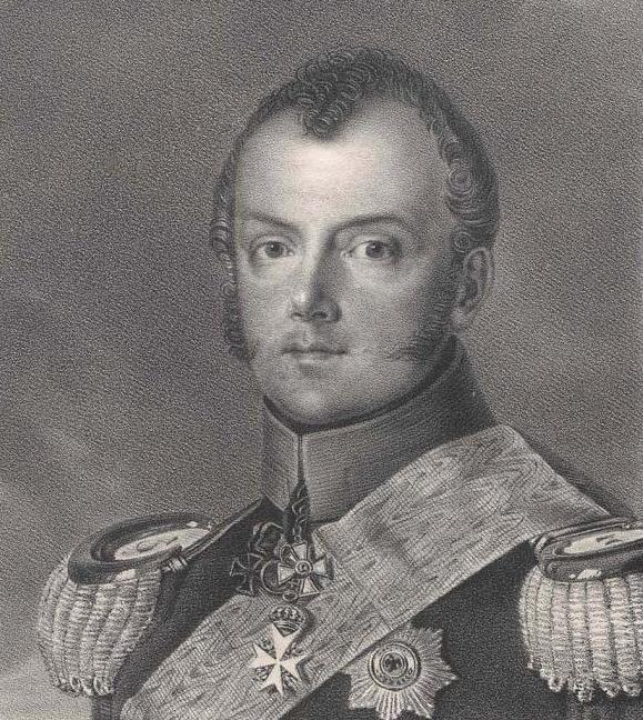 Prince Henry of Prussia